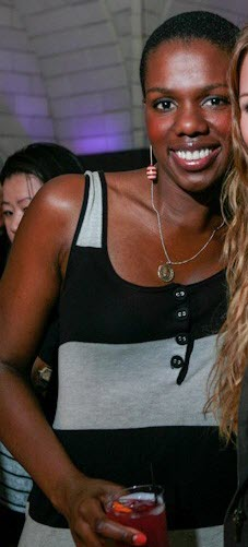 Picture of Francesca Hogi apart of publication company (based in New York City) that I took myself at the Los Angeles County Museum of Art in February 2013